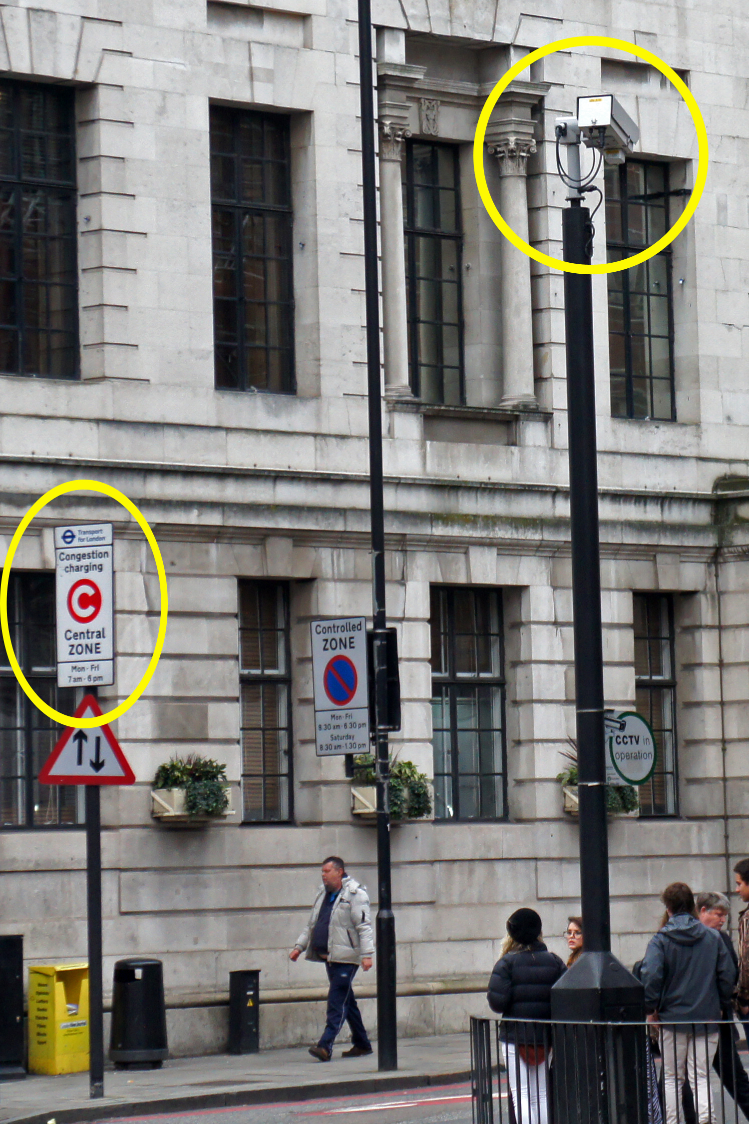 Entrance to the London Congestion Charge zone. Shown the CCTV used to control vehicles entering the zone's boundary.